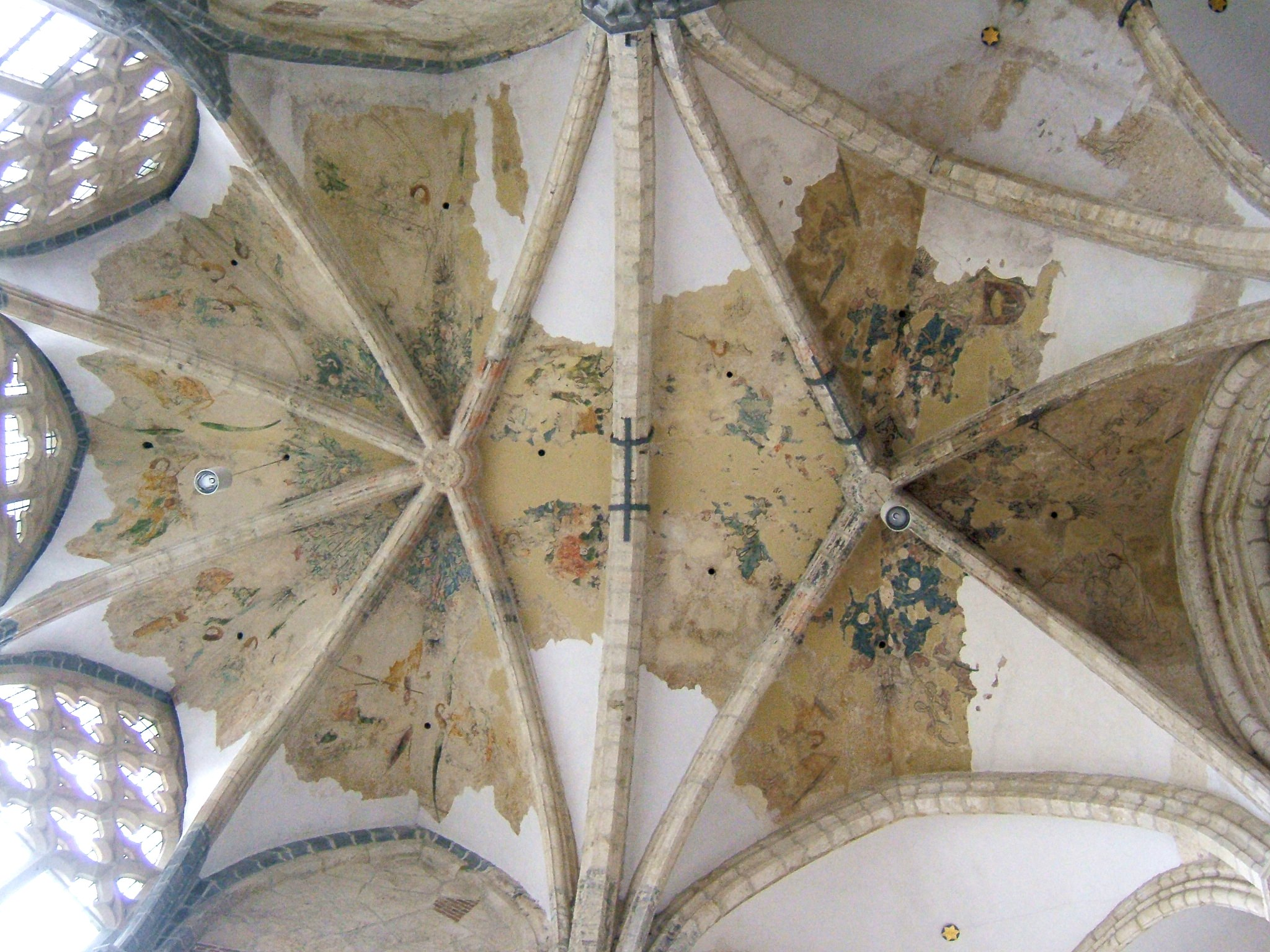 Frescos on the rib vault over the nave of the gothic Sint-Niklaaskerk in Gent.